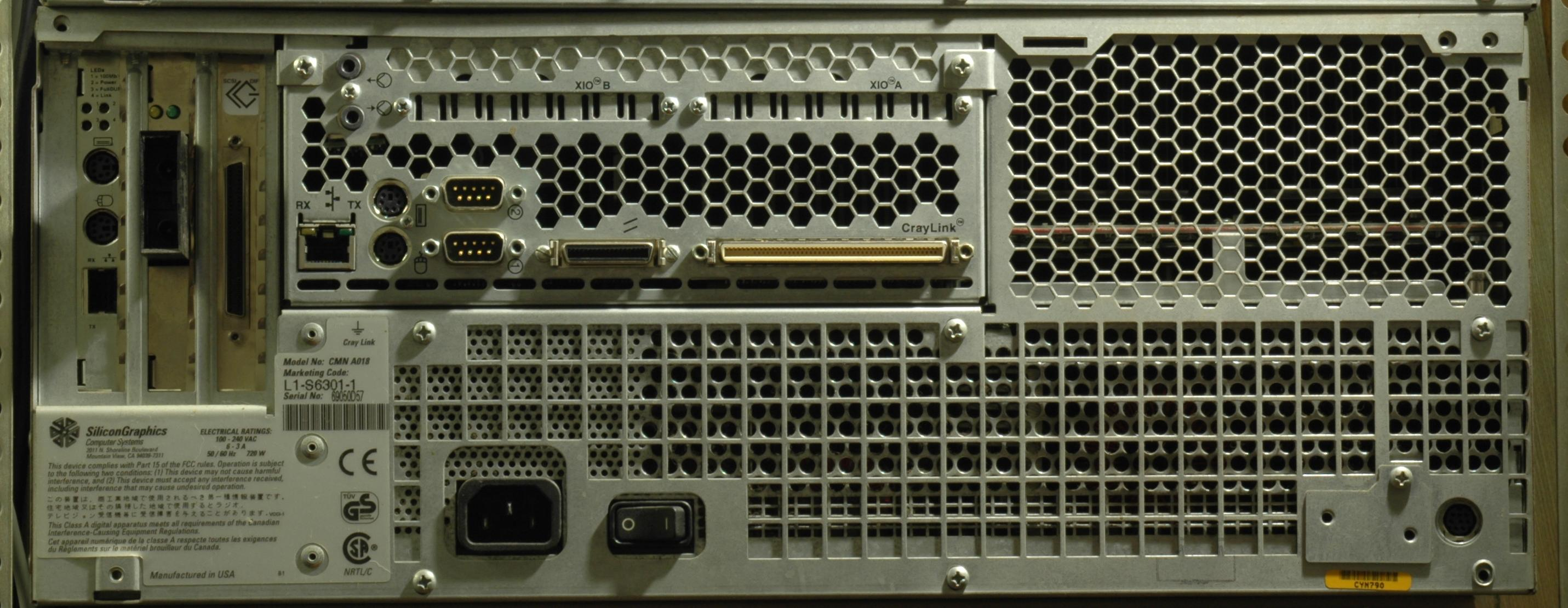 Rear view of rack-mounted SGI Origin-200.